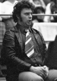 Austrian baritone Bernd Weikl sings with the Staatskapelle Dresden in 1973. Photo: Mirschel, Hansjoachim , 1973.02 Aufn.-No .: df_hauptkatalog_0570043_003 Original negative (plastic, 6/6 cm, black and white) Owner: SLUB / German Fotothek , 12 photos available; 570027 - 570047 Record 80747110 Saxon Staatskapelle Dresden - Discography 1923 1998, submitted by Klaus Heinze. Dresden, 1998. p. 50 Additional information: Production company: Eterna - DGG (DGG CD-No. 415432-2); Recordings 01./02.1973